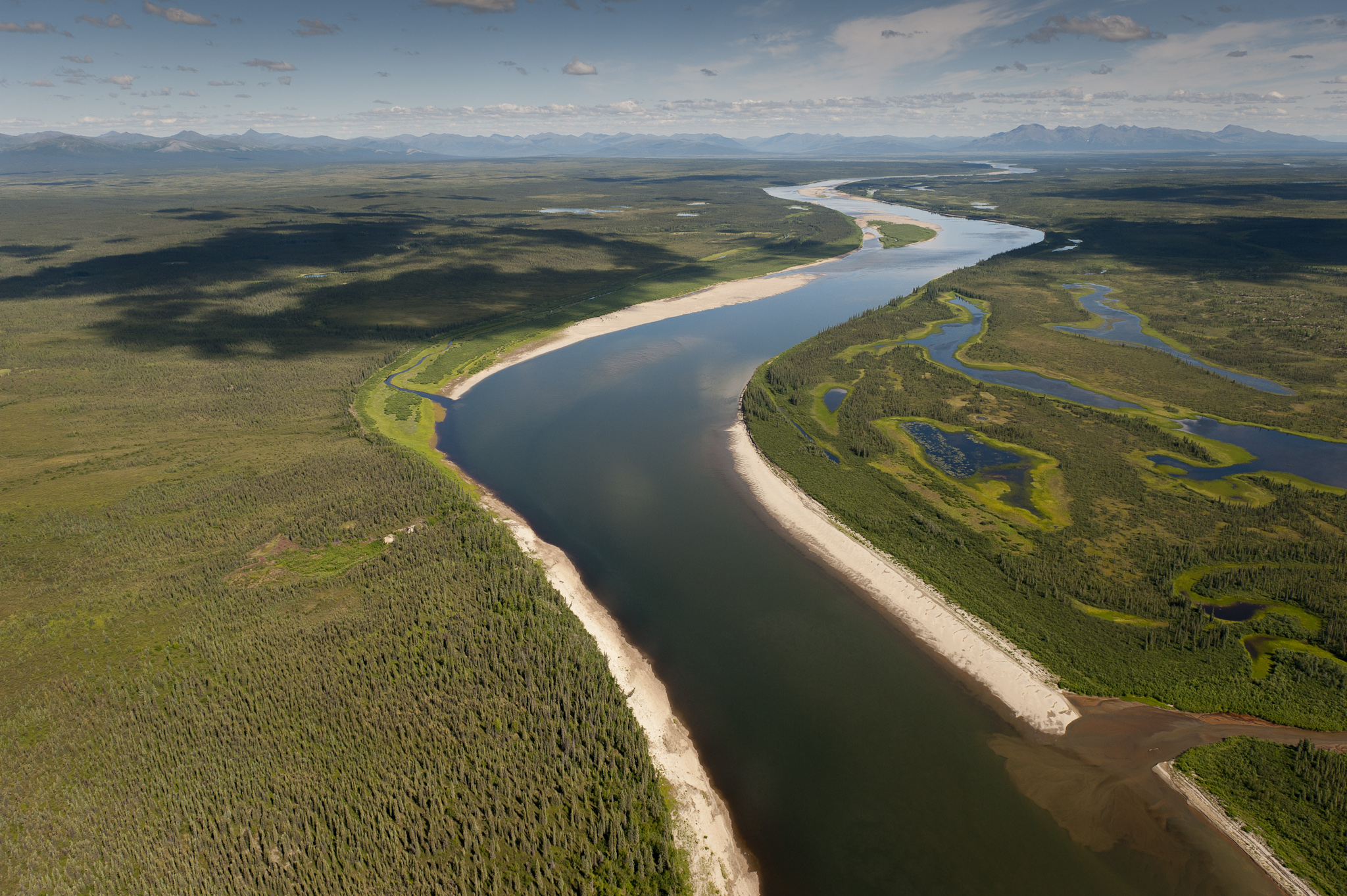 (NPS Photo by Neal Herbert)